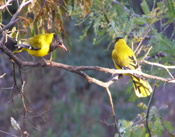 A pair of Black-headed Orioles in courtship, perched in a Weeping wattle on a riparian zone cliff, central Waterberg, South Africa